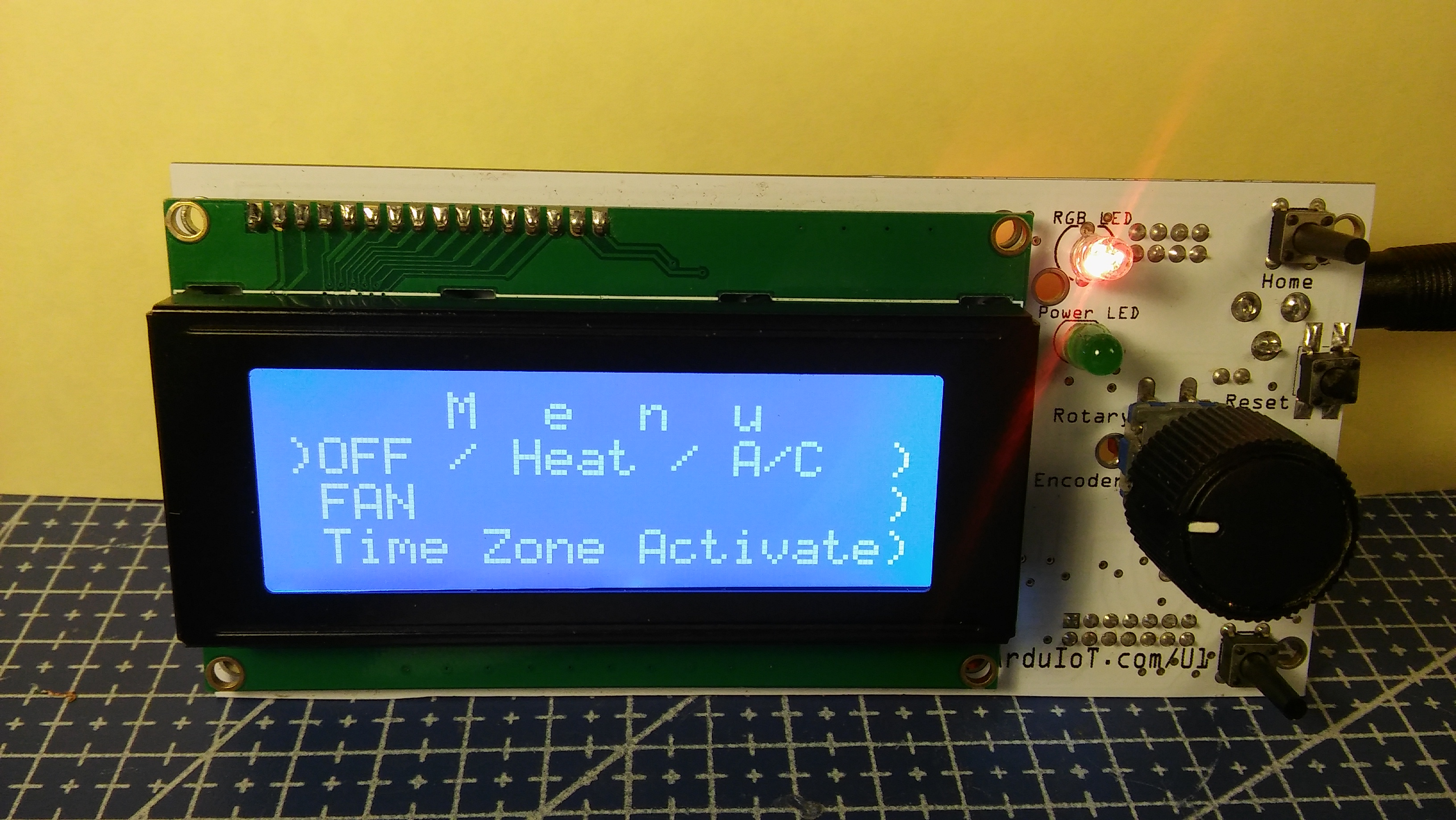 inviot U1 (arduino-compatible) all-in-one board with LCD, rotary encoder, RTC DS3231, EEPROM, buzzer, push buttons, RGB Led, NRF24 plug, and ESP8266 plug. More